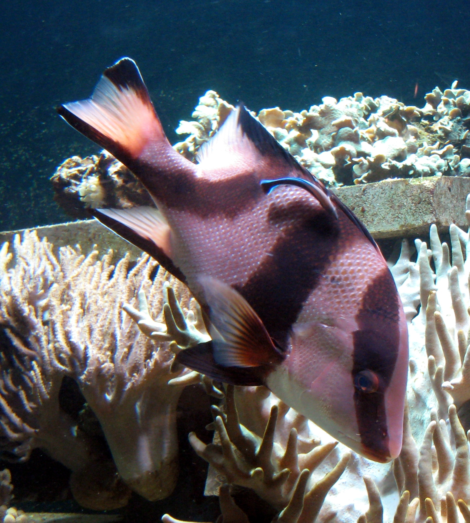 Lutjanus sebae at Nausicaä, Centre National de la Mer.